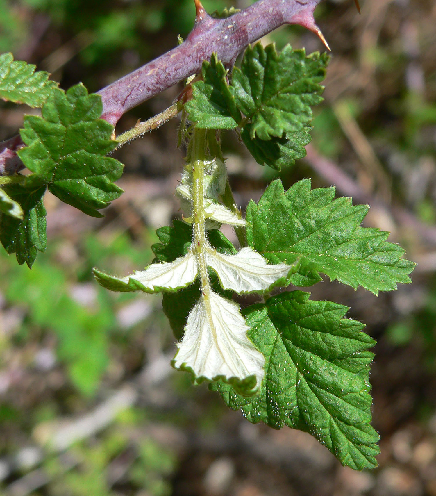 Rubus leucodermis in Carpenter Canyon about 1 km above the road end/turnaround, Spring Mountains, southern Nevada (elev. about 2200 m)